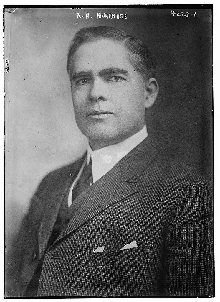 Albert Alexander Murphree in 1917